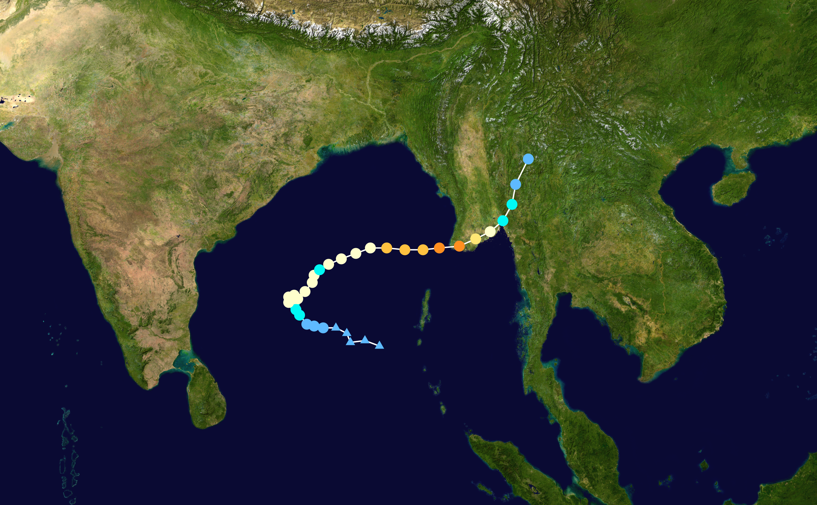 Track map of Extremely Severe Cyclonic Storm Nargis of the 2008 North Indian Ocean cyclone season. The points show the location of the storm at 6-hour intervals. The colour represents the storm's maximum sustained wind speeds as classified in the Saffir–Simpson scale (see below), and the shape of the data points represent the nature of the storm, according to the legend below. Saffir–Simpson scale Tropical depression≤38 mph≤62 km/h Category 3111–129 mph178–208 km/h Tropical storm39–73 mph63–118 km/h Category 4130–156 mph209–251 km/h Category 174–95 mph119–153 km/h Category 5≥157 mph≥252 km/h Category 296–110 mph154–177 km/h Unknown Storm type Tropical cyclone Subtropical cyclone Extratropical cyclone / Remnant low / Tropical disturbance / Monsoon depression